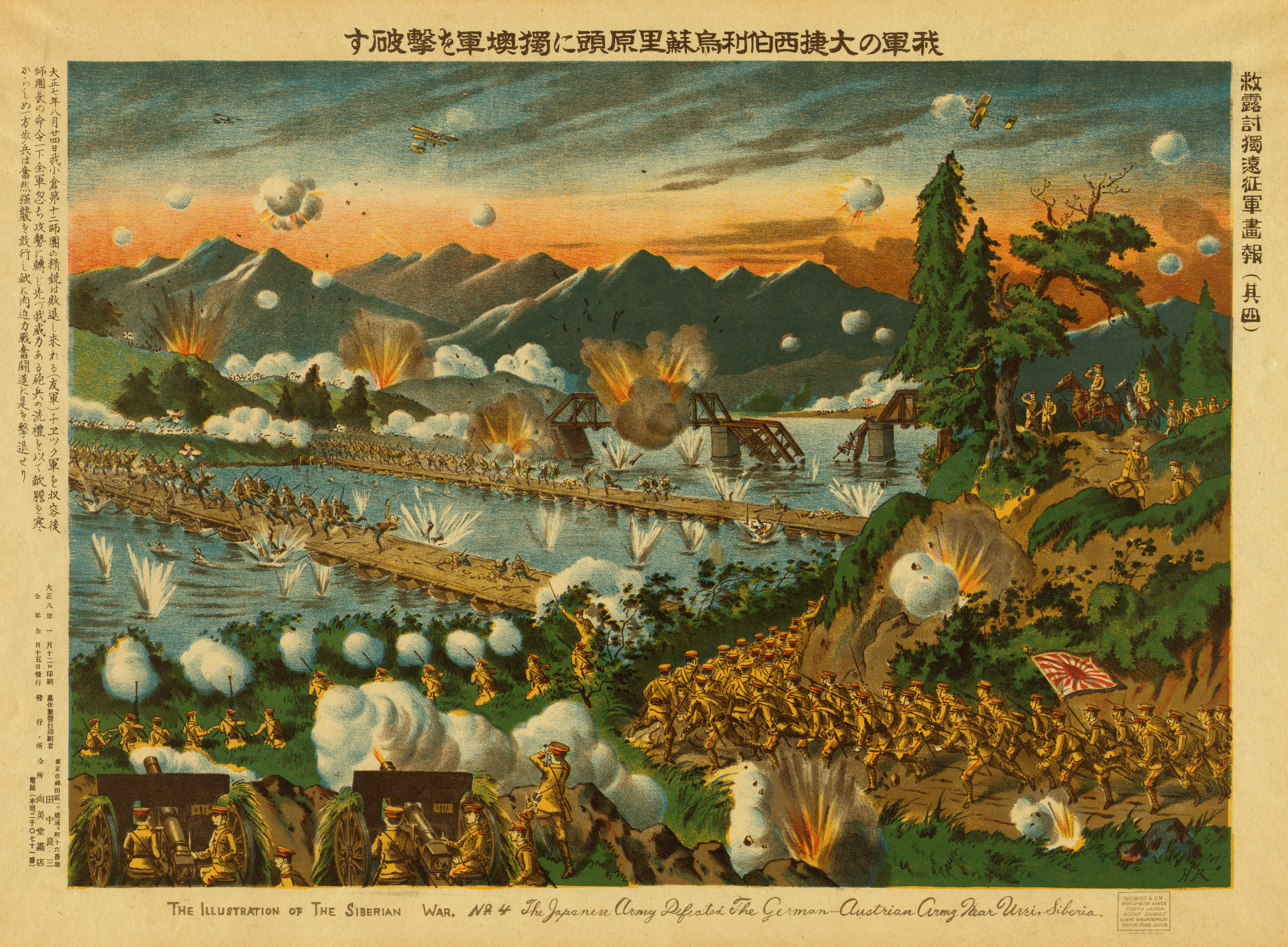 A Japanese lithograph, (probably showing the Japanese fighting German troops during the conquest of the German colony Tsingtao (today Qingdao) in China between 13 September and 7 November 1914.- wrong statement) Original caption: "The Japanese army defeated the German-Austrian Army near Usri [i.e. Ussuri], Siberia." Note: The prints of this series relate to the Siberian Intervention from 1918-1922. (However, at that time there were no German or Austro-Hungarian troops anywhere in Asia. The Austro-Hungarian troops may refer to the sailors provided by the Austro-Hungarian armoured cruiser SMS Kaiserin Elisabeth for the defence of Tsingtao in 1914. - wrong statement) In fact German and Austro-Hungarian soldiers, former POWs from Russian POW-camps made bulk of the Red Army forces in Siberia in 1918. Soviet historiography called them "the internationalists".